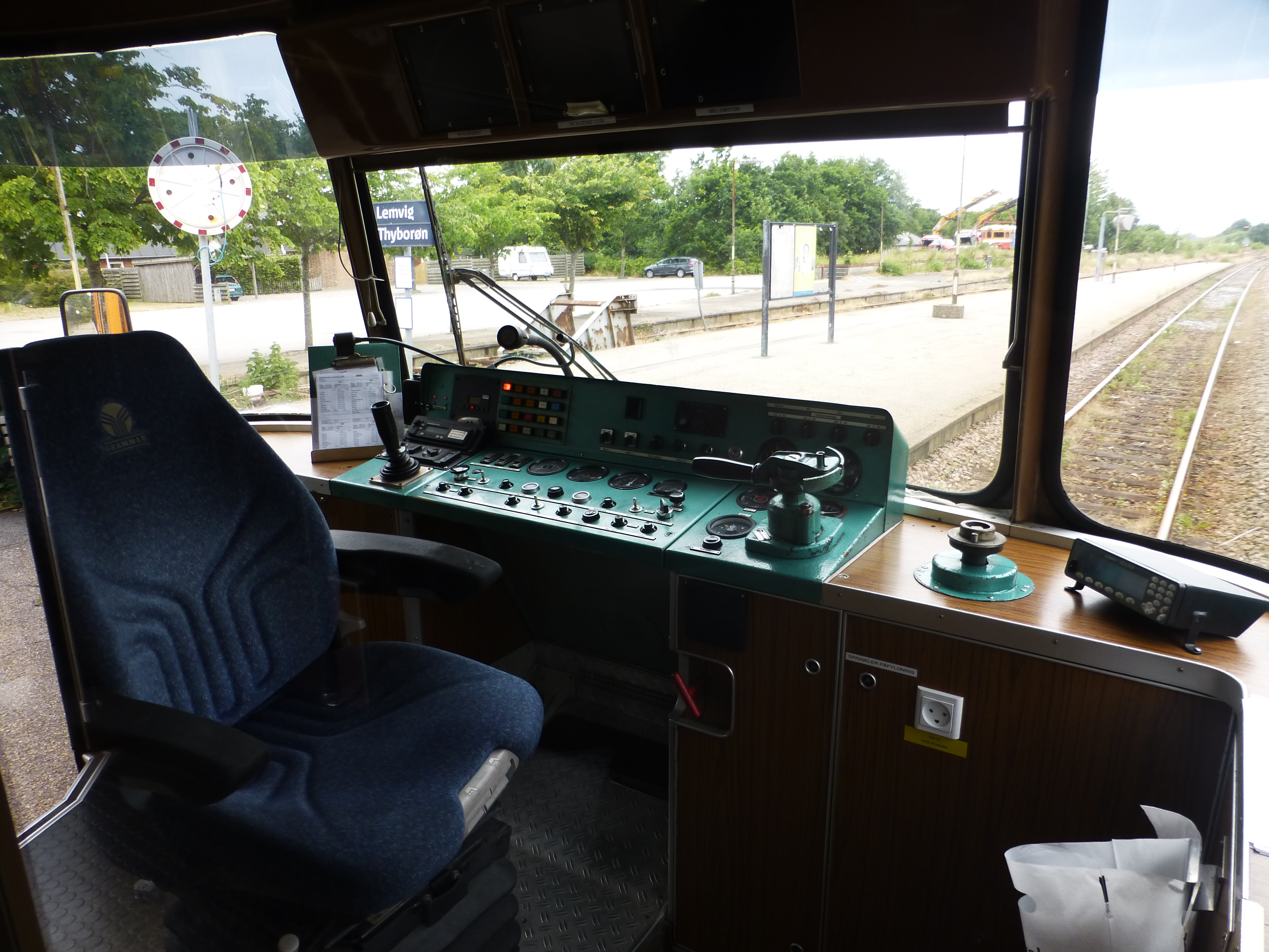 Interior of diesel multiple units Y-tog belonging to Lemvigbanen in Denmark. Driving cab of MJbaD YM 39 "Kysten"